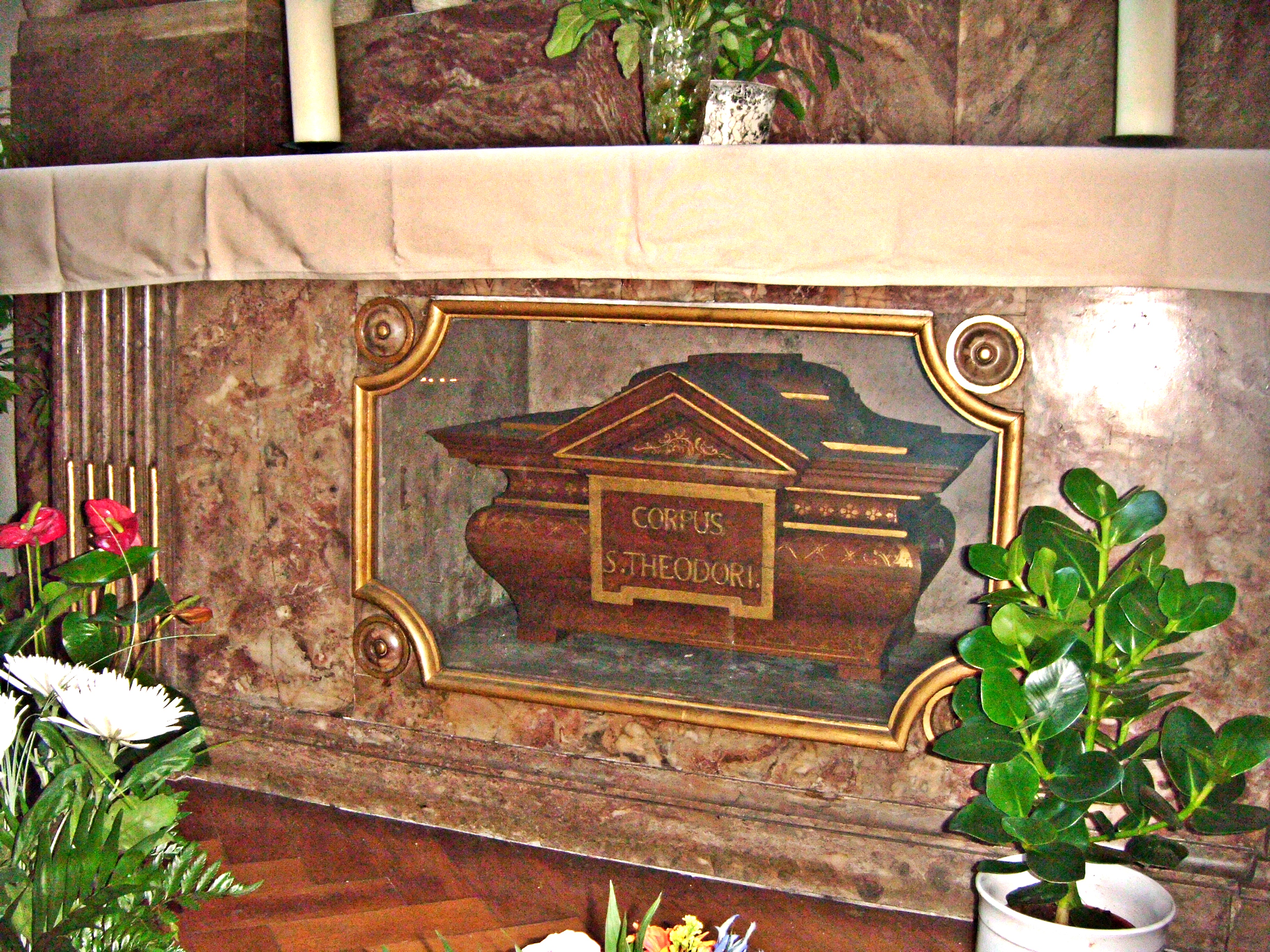 Theodor-Reliquienaltar, St. Sebastian, Mannheim, Reliquiar